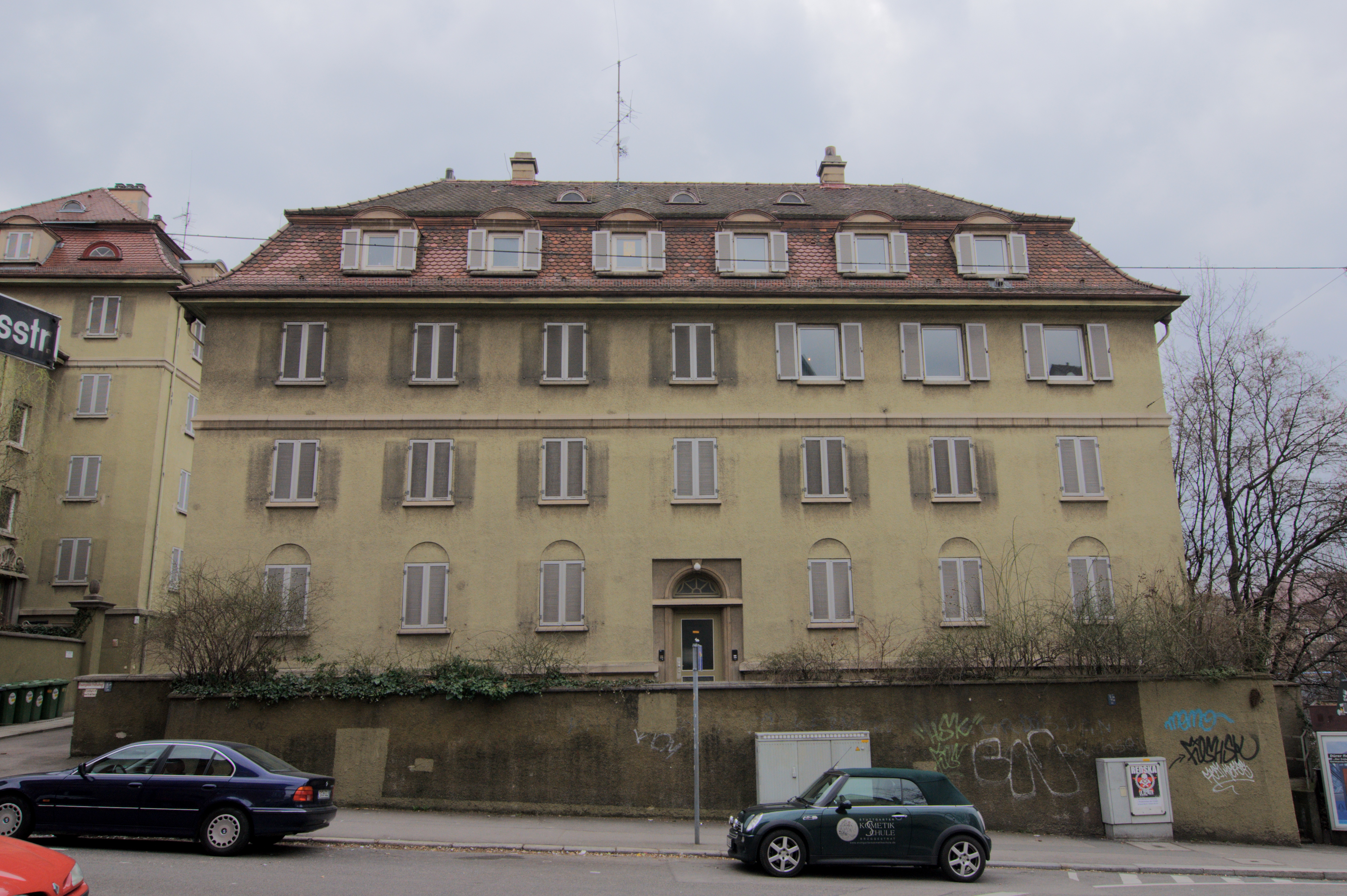 The house "Sängerstr. 4, now demolished by the Stuttgart 21 project.